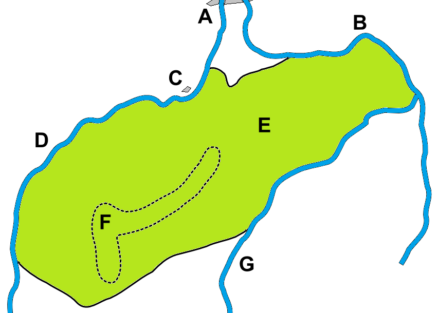 Plan showing Okehampton Castle Park. After information at Creighton (2011), "Seeing and Believing", p.87